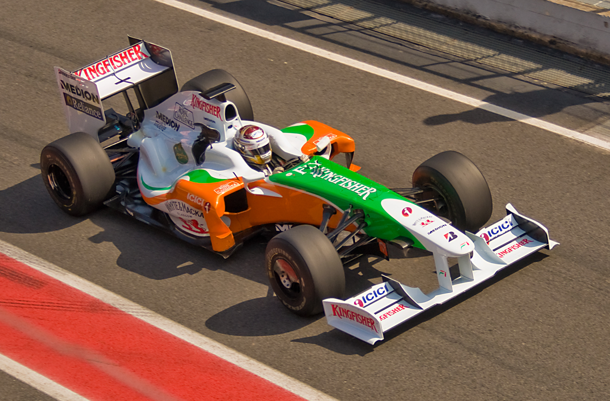 Adrian Sutil, Force India VJM02 Nikon D90 + Sigma 18-200 DC OS HSM 1/1250s - F/4.8 - 52mm - ISO250